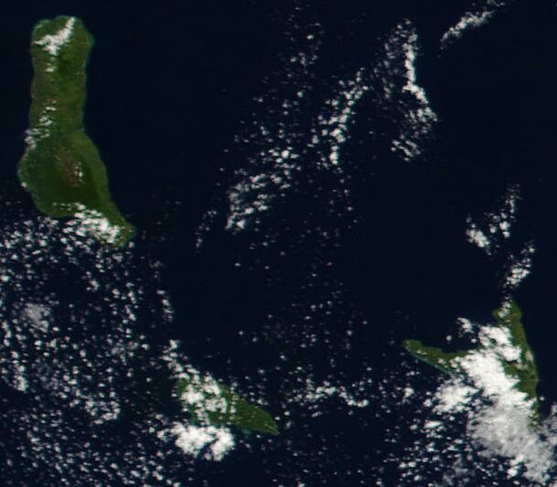 Satellite image of Comoros in April 2002.